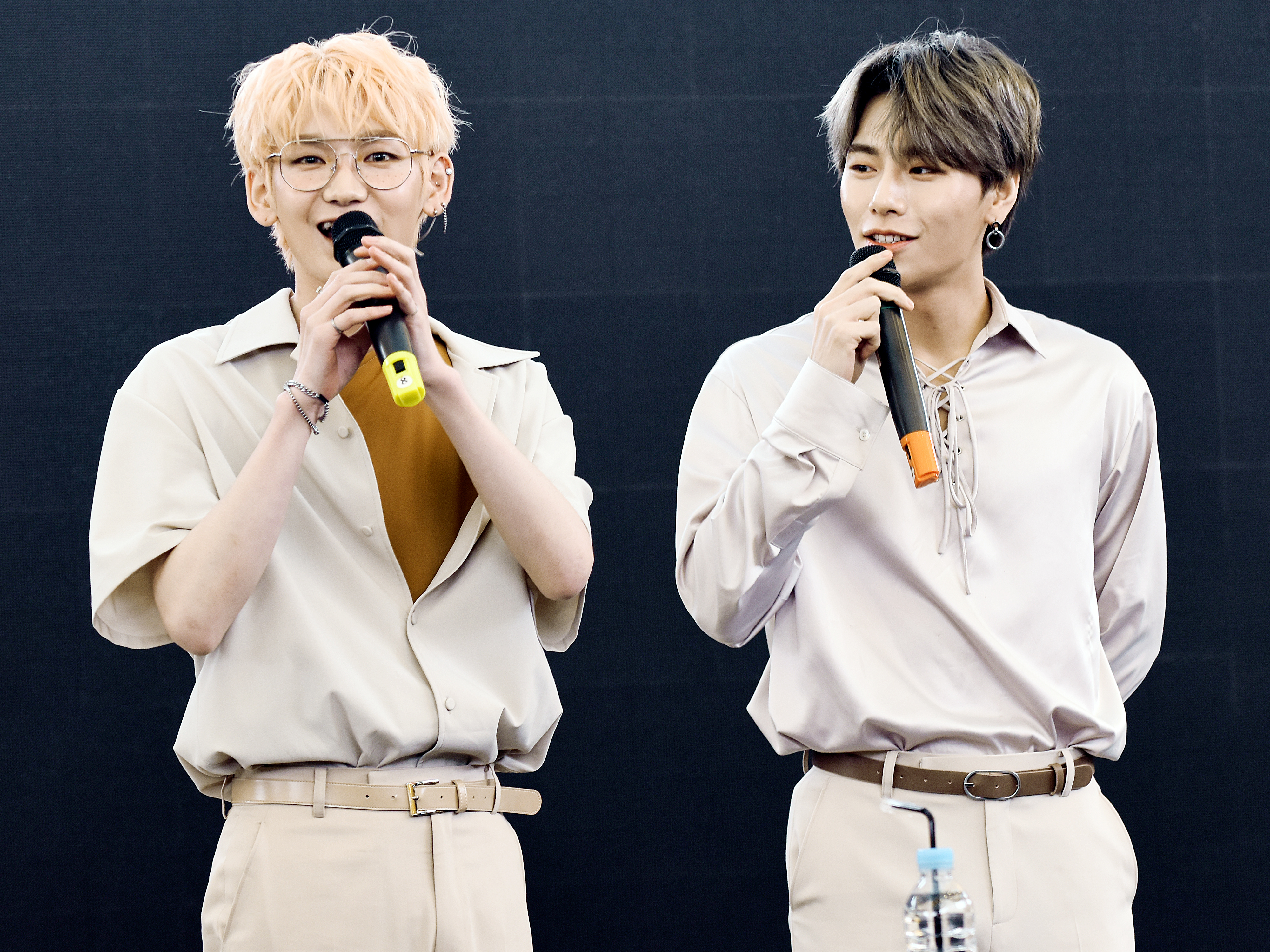 JBJ95 at a fansign event at Starfield in Goyang on March 31, 2019.